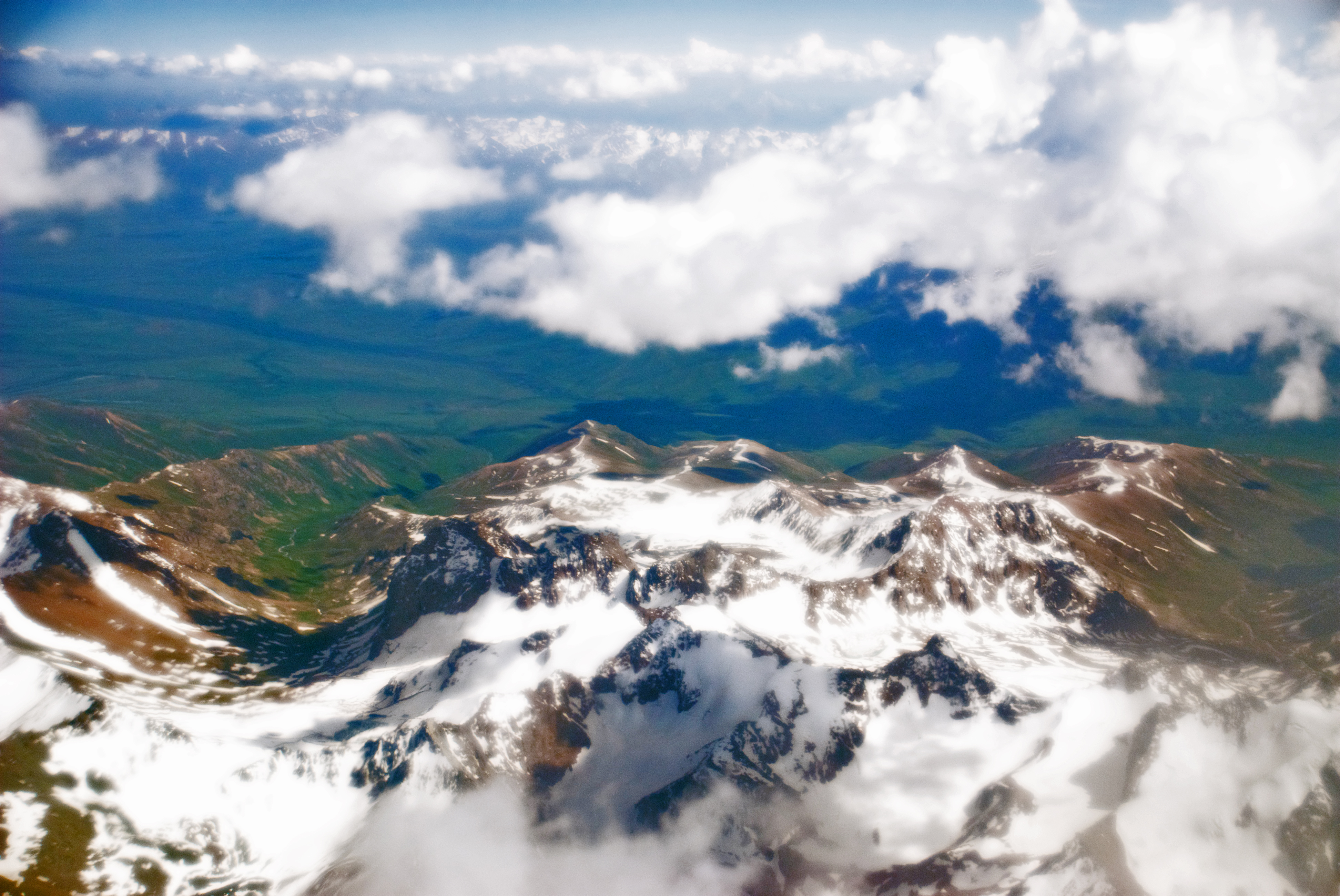 A view of the Pamir Mountains of Tajikistan from a Tajik Air airplane.